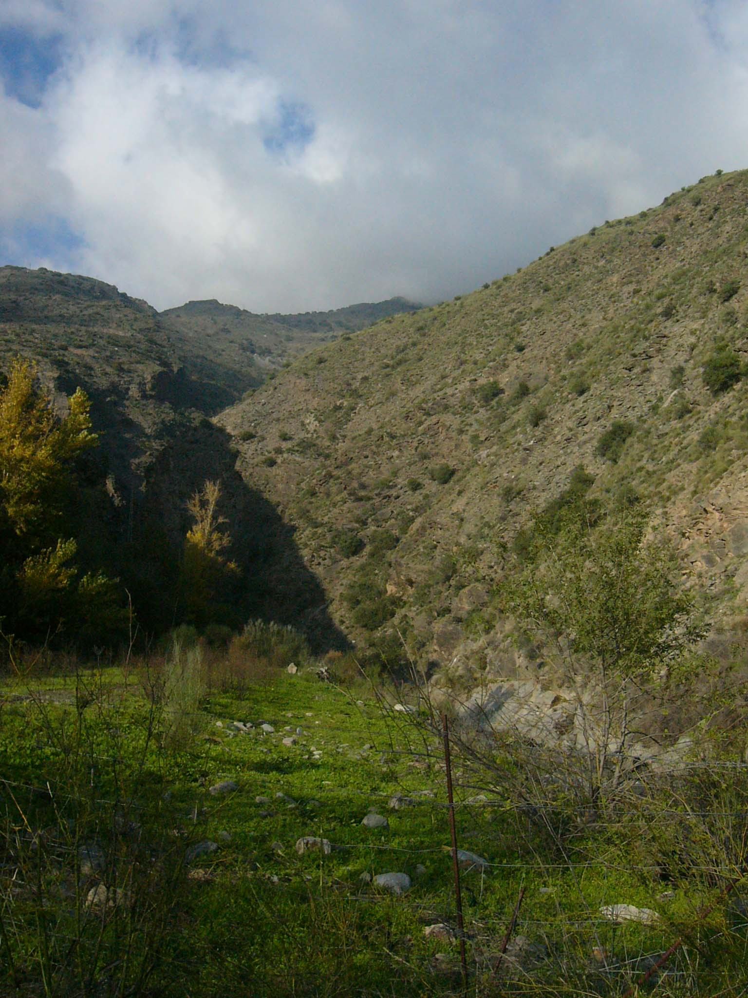 After battle on the lower ground, the Catholic army had to gain the heights